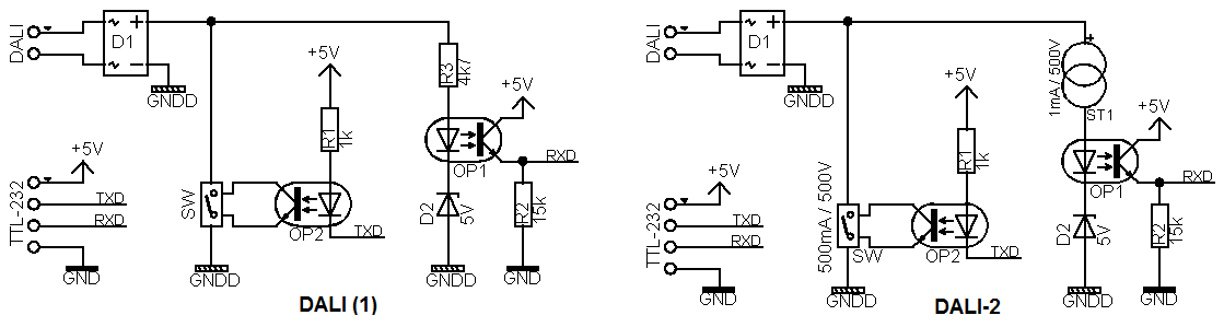 Basic principe of the DALI and DALI-2 interface hardware.